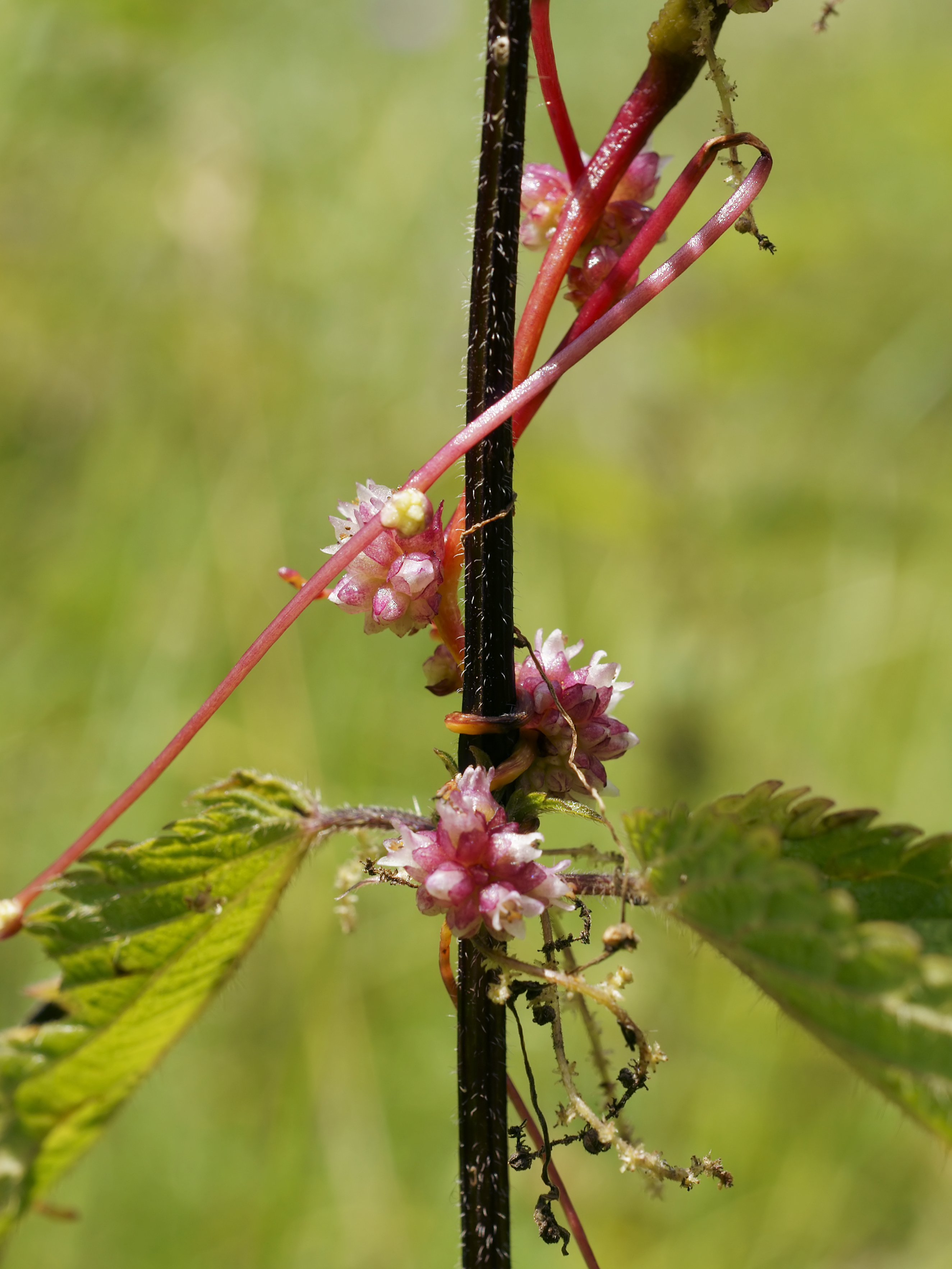 Greater Dodder, close to Visp, Wallis, Switzerland